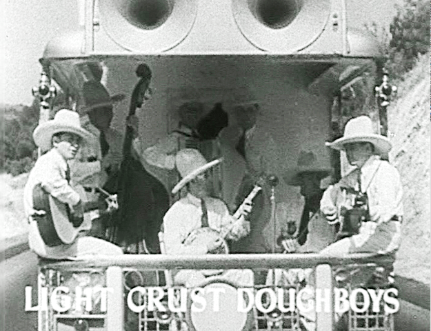 Snapshot from Oh, Susanna! (1936)